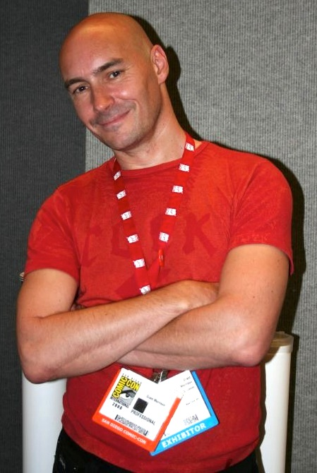 Grant Morrison, ComiCon 2006